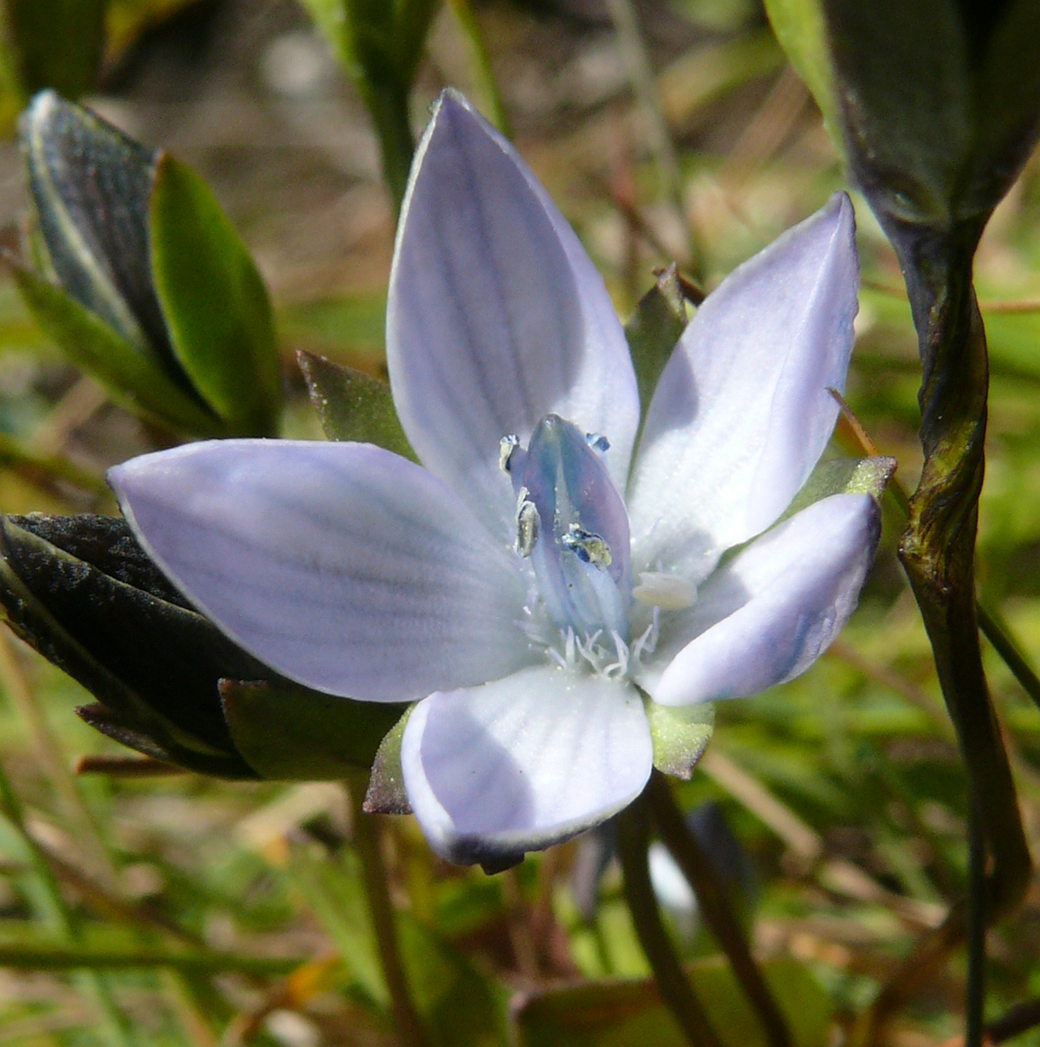 Lomatogonium carinthiacum, Naturpark Puez-Geisler, Italy